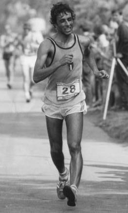 Alessandro Pezzatini in a race in Italy in 1970s.